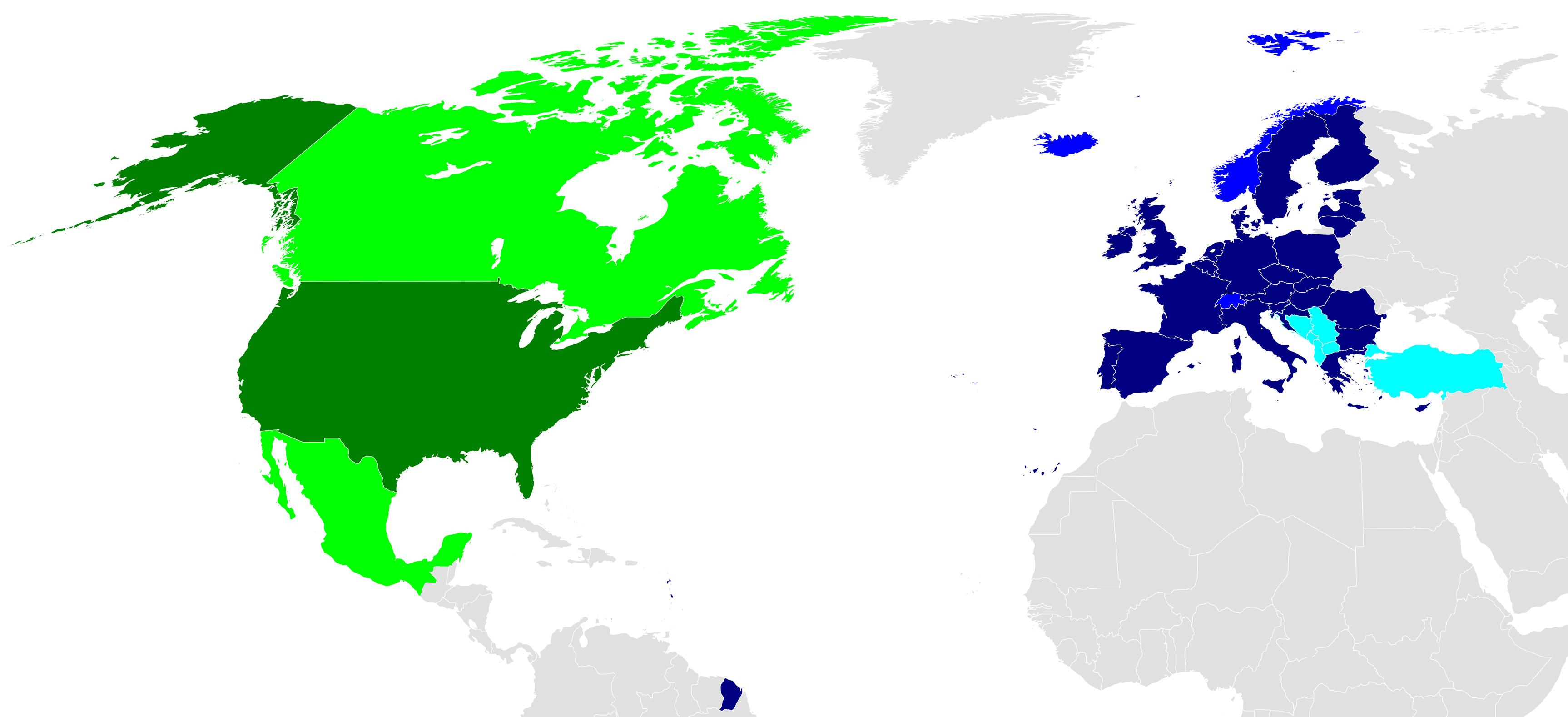 Proposed TAFTA (Transantlantic Free Trade Area) USA NAFTA EU EFTA EU enlargement agenda